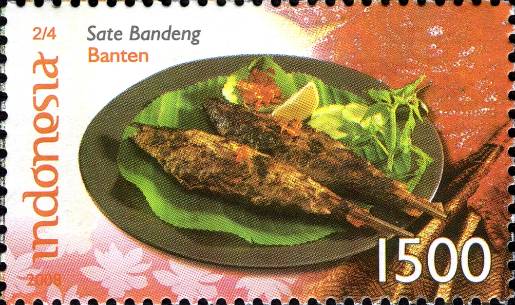 Stamps of Indonesia